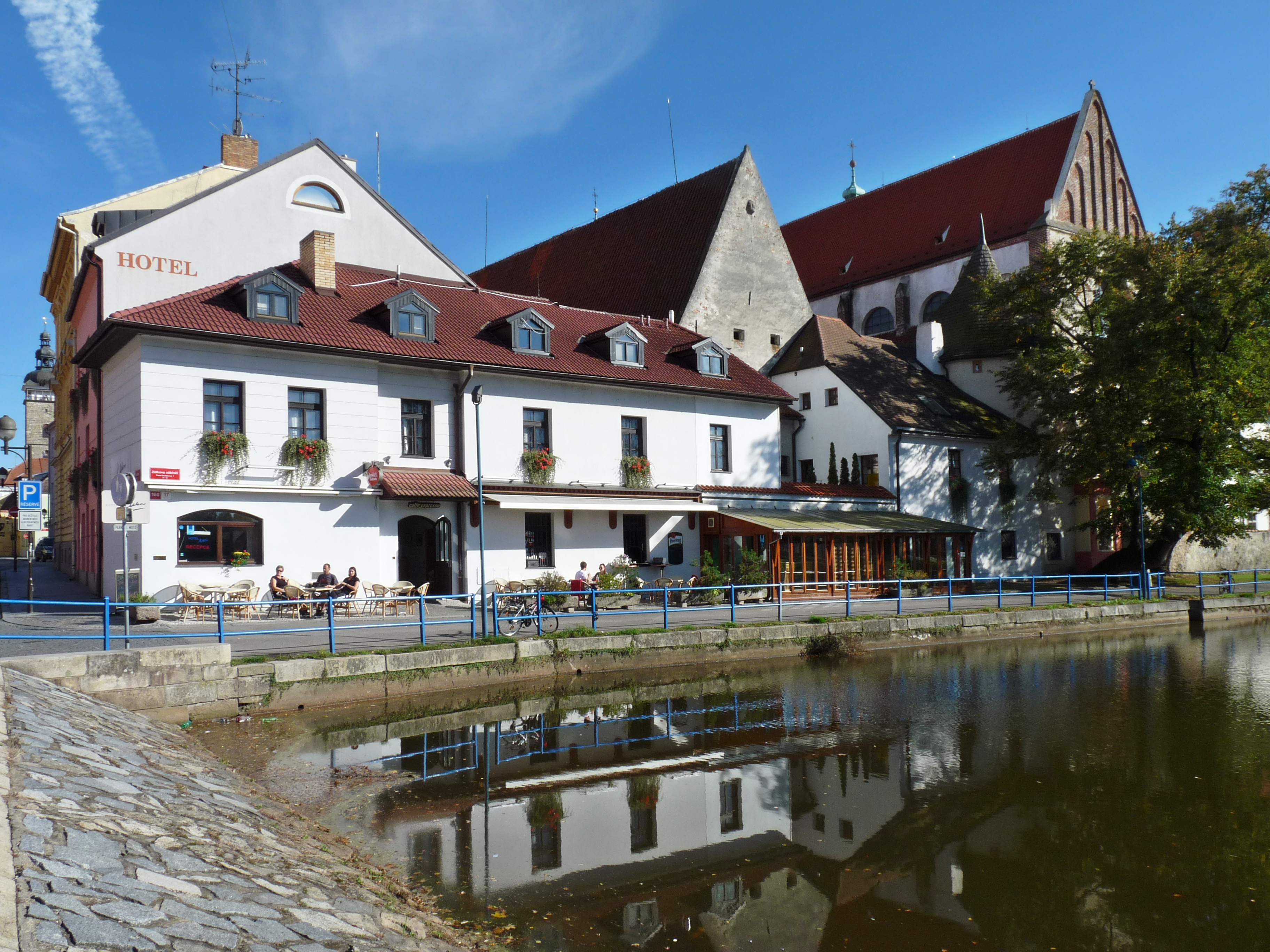 Houses Hroznová 487/25, Zátkovo nábřeží 158/16, České Budějovice, Czech Republic.